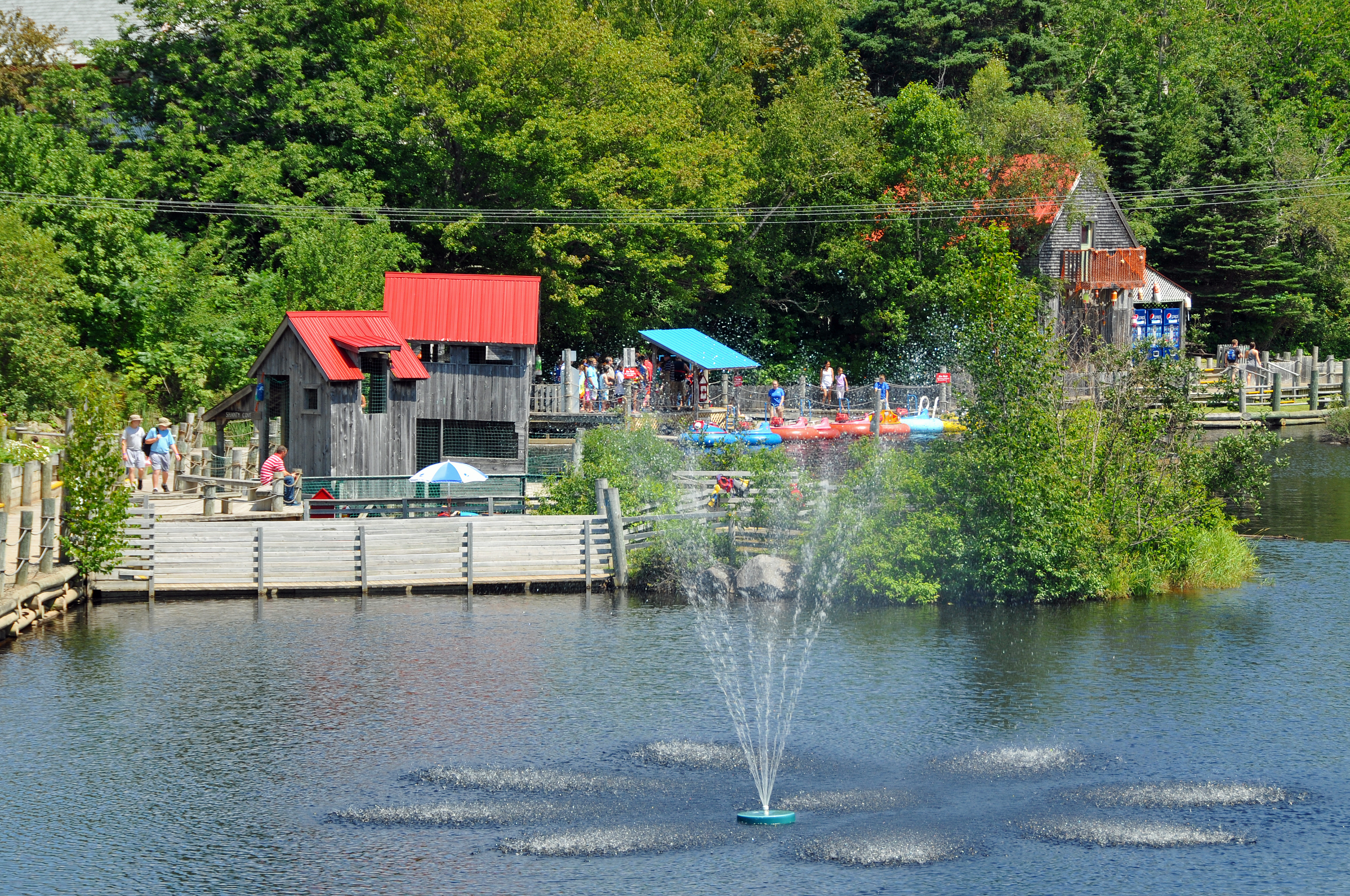 PLEASE, no multi invitations in your comments. DO NOT FEEL YOU HAVE TO COMMENT.Thanks. The lake in the center part of the Amuzement Park where there are plenty of water rides.